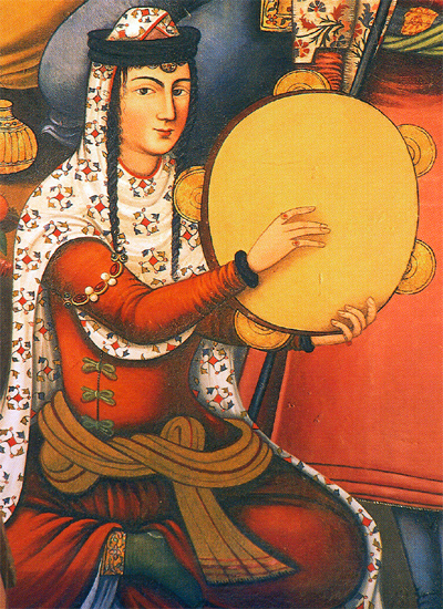 A Persian woman playing the Daf, from a painting on the walls of Chehel-sotoon palace, Isfahan, 17th century, Iran. Photo by User Zereshk